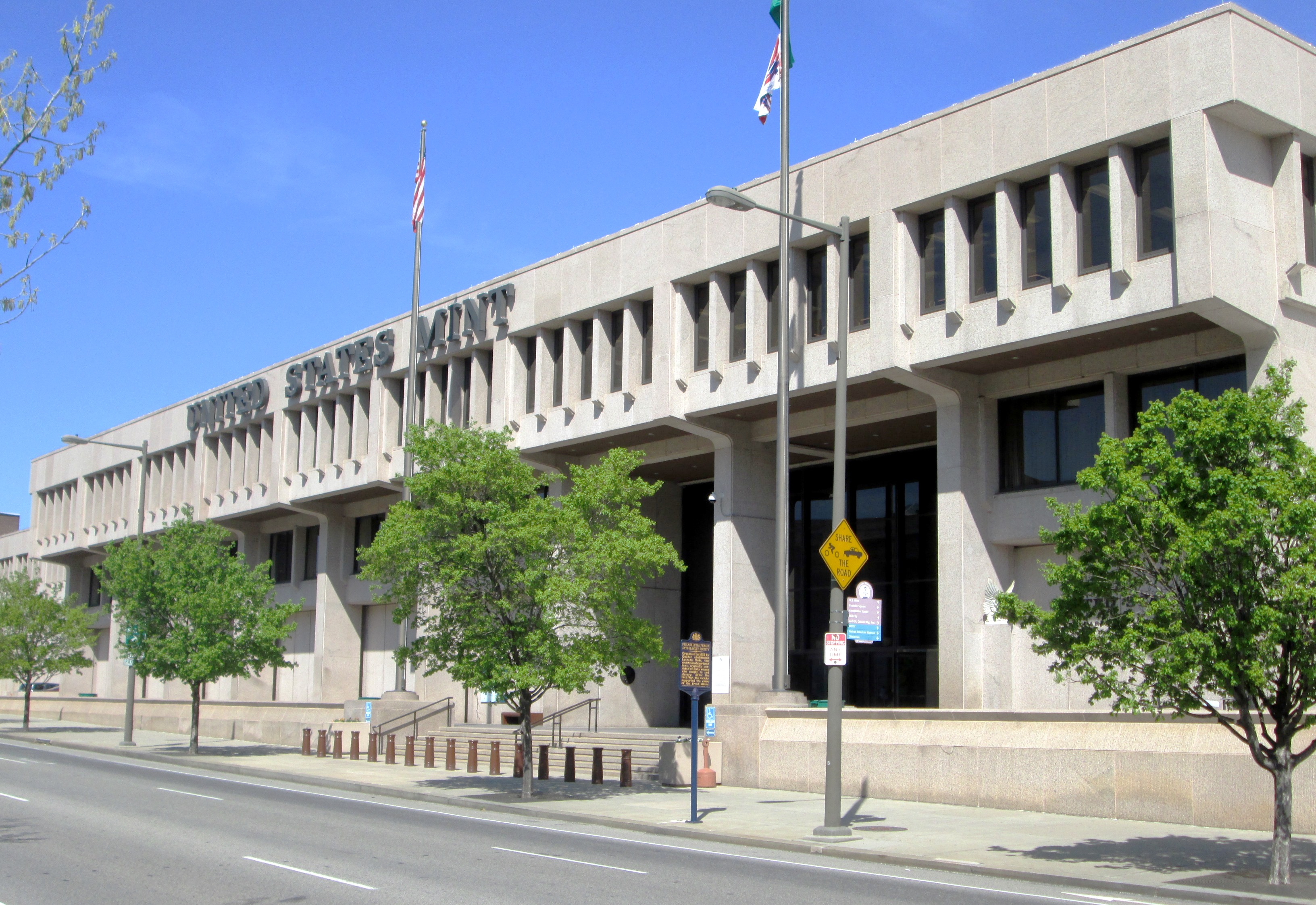 The fourth building of the United States Mint in Philadelphia, at 151 North Independence Mall East (N. 5th St.) in the Old City neighborhood, was completed in 1969 and was designed by Vincent G. Kling. It was the world's largest mint when it was built and held that distinction as of January 2009. The full-block building is bounded by Arch Street (south), N. 5th Street (west), Race Street (north) and N. 4th Street (east)